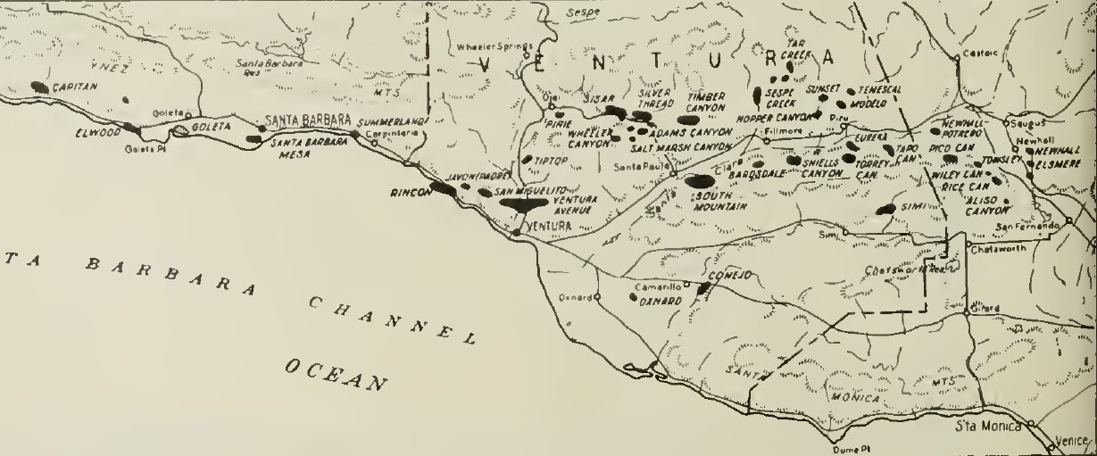 Map of Santa Barbara and Ventura Oil and Gas Fields